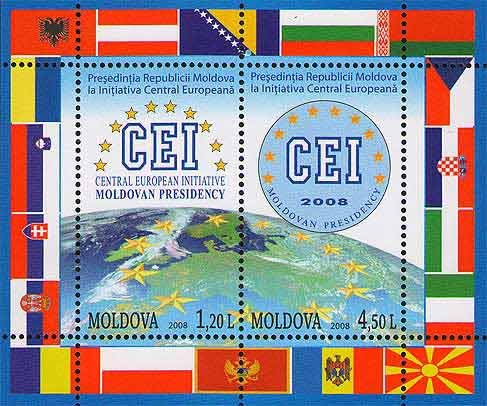 Stamp of Moldova